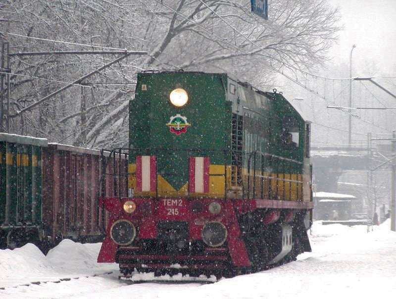 Shunter diesel locomotive TEM2-215 of private Polish railway operator PTKiGK Zabrze at Cieszyn station.